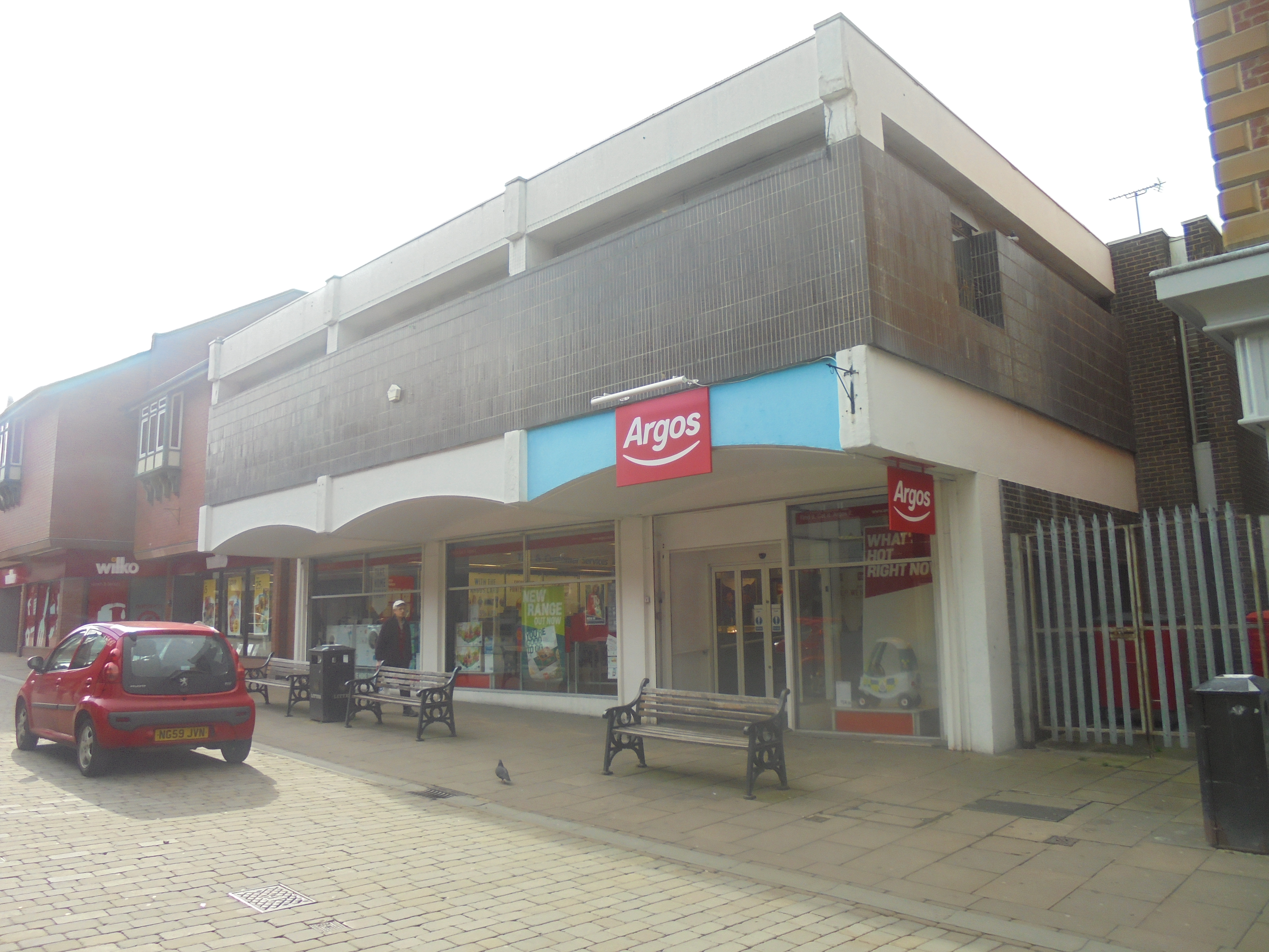 Argos, Salter Row, Pontefract, West Yorkshire. Taken on the afternoon of Thursday the 25th of April 2019.